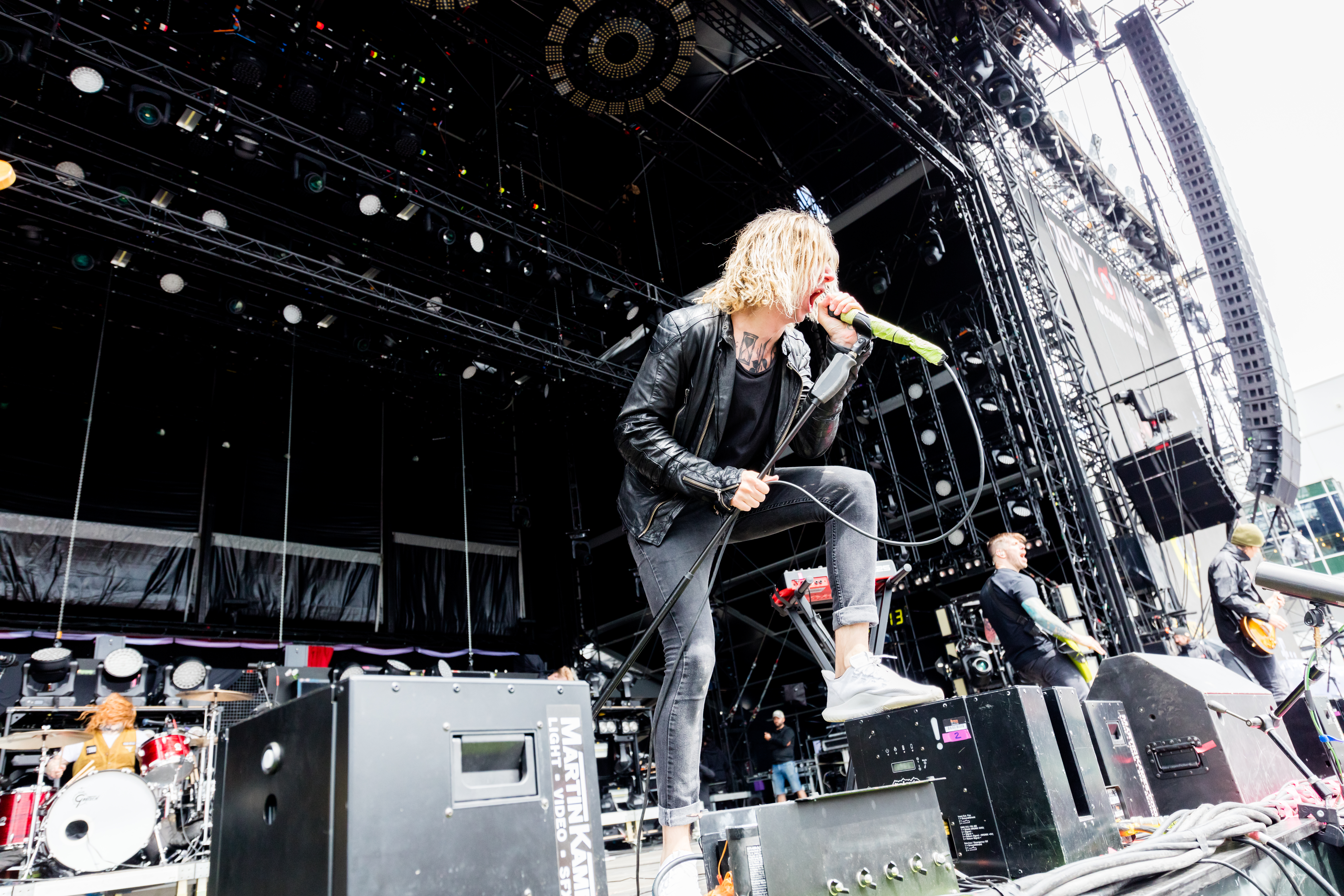 Underoath during Rock am Ring ( at Nürburgring, Rheinland-Pfalz, Germany on 2019-06-08, Photo: Sven Mandel Promotion by Live Nation (